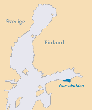 Bay of Narva in the southern Gulf of Finland